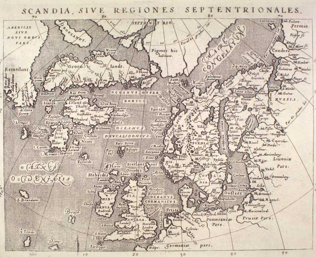 Map published in Italy